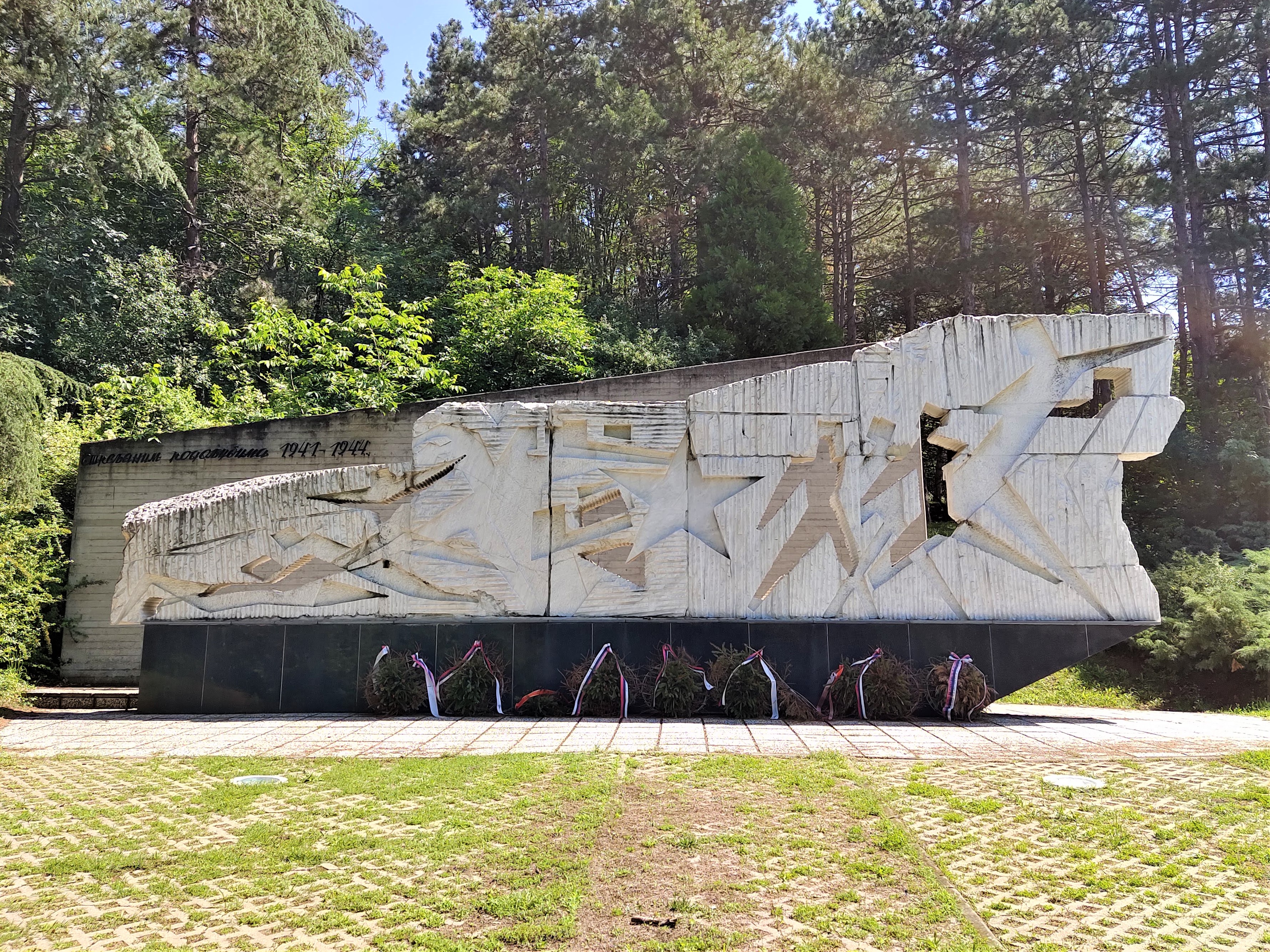 Monument to the executed patriots 1941-1944, Čačalica, Požarevac